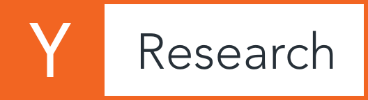 YC Research logo